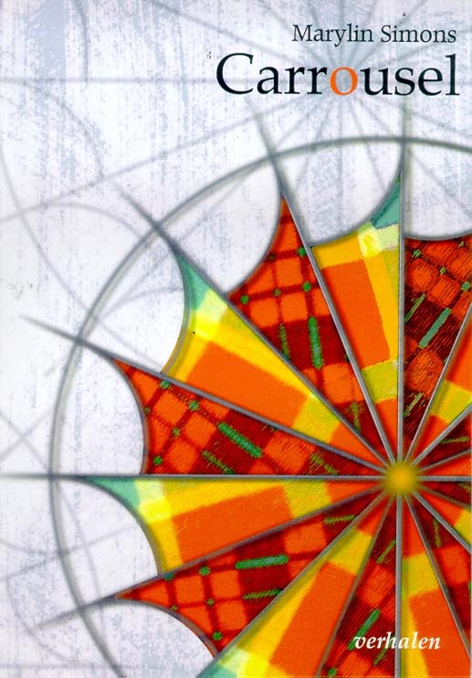 Cover of Carroussel (2003), first collection of short stories by Surinames Marylin Simons.